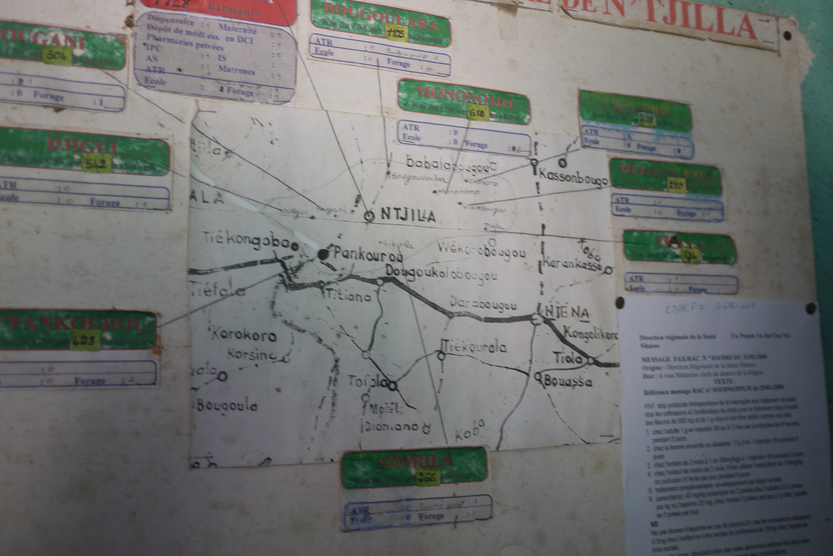 This map is posted in the CSCOM (local health center) in the Rural Commune Wateni capital of N'tjilla.